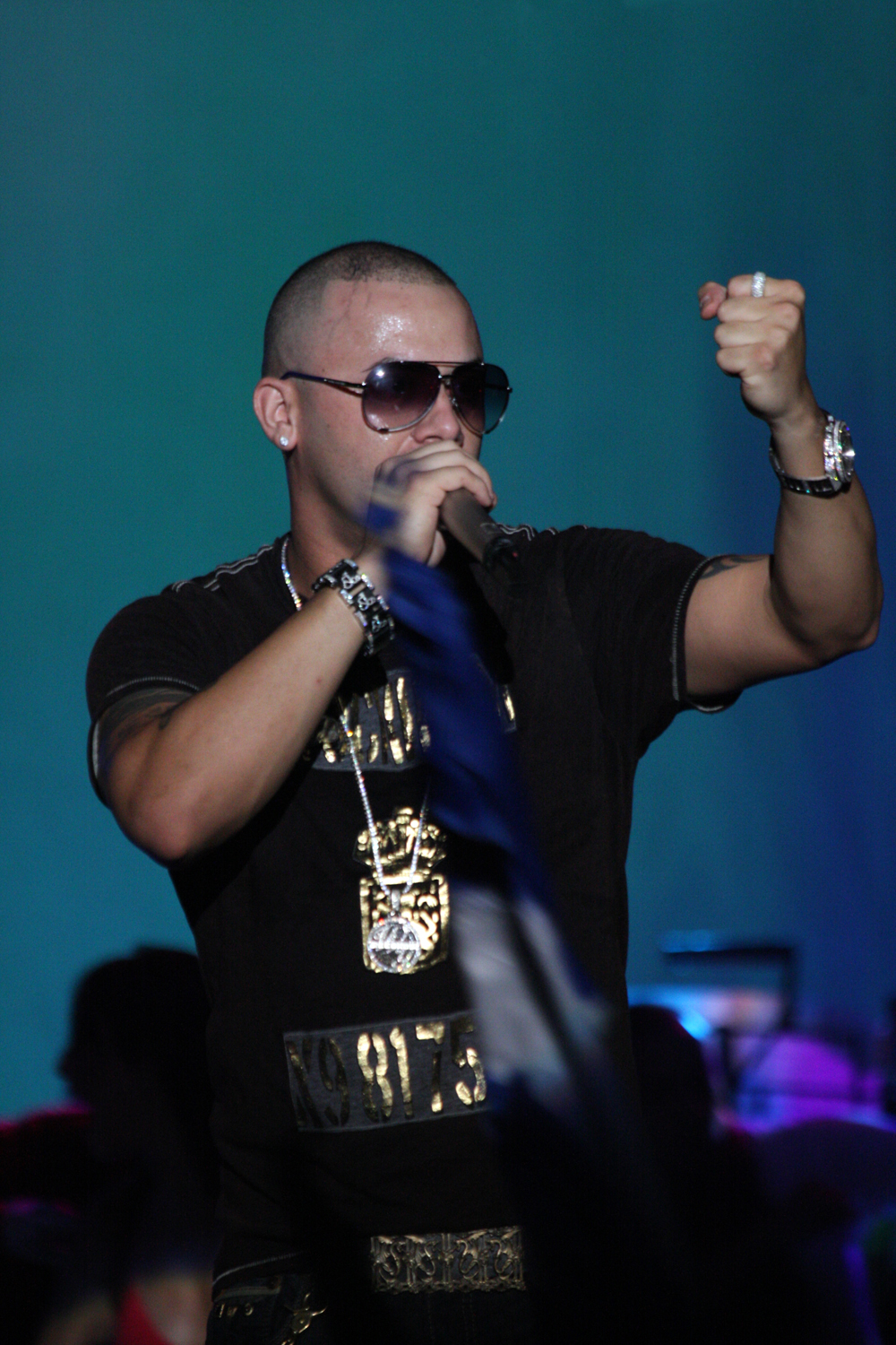 Wisin in concert.